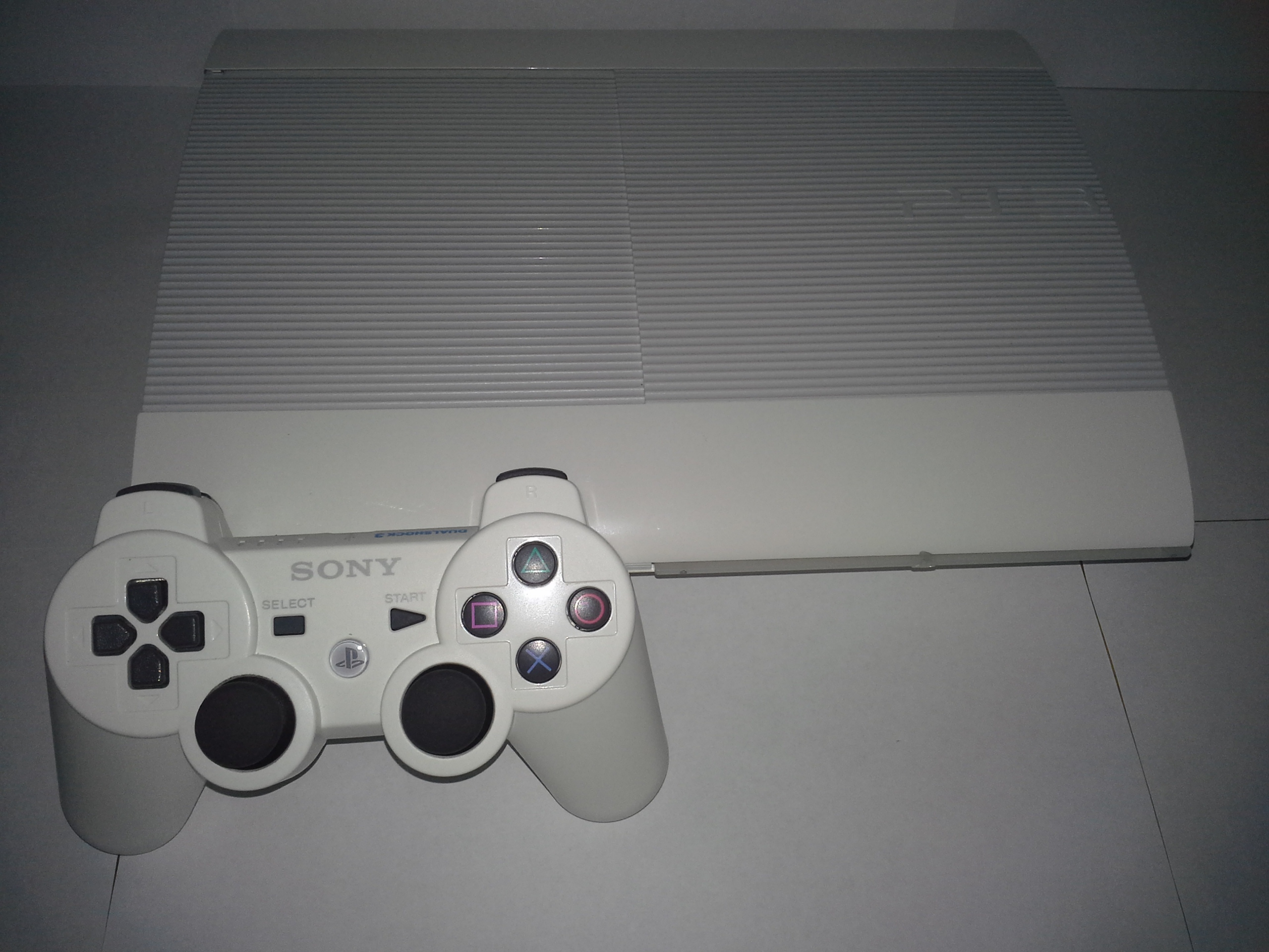 The 500GB PS3 "Super Slim" model. Shown with Classic White DualShock 3 controller